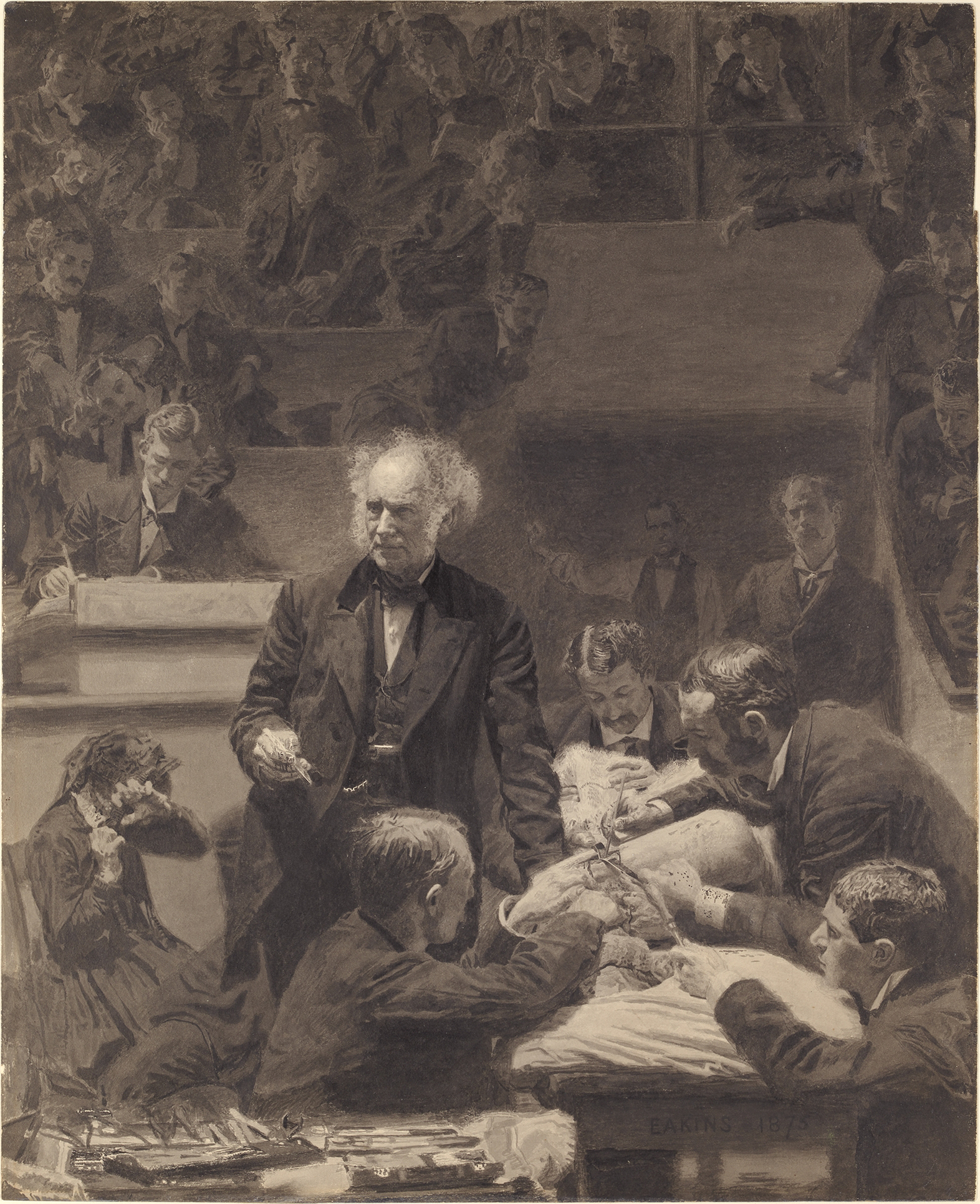 Black and White version